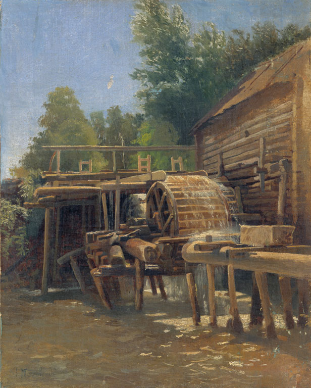 Nikolay Makovsky (1842-1886) A Water-Mill